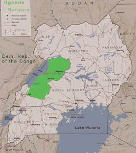 Ugandas oljefält så stora att de konkurrerar med Saudi Arabiens